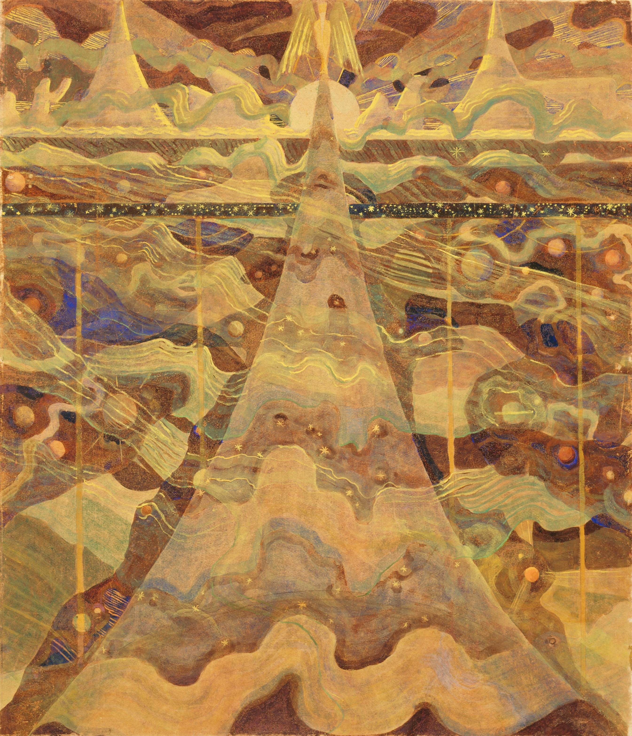 Sonata No. 6 (Sonata of the Stars). Allegro